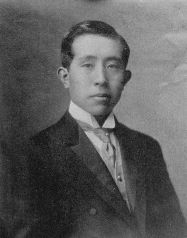 Mr. Nagakage Okabe, heir of Viscount Nagamoto Okabe.